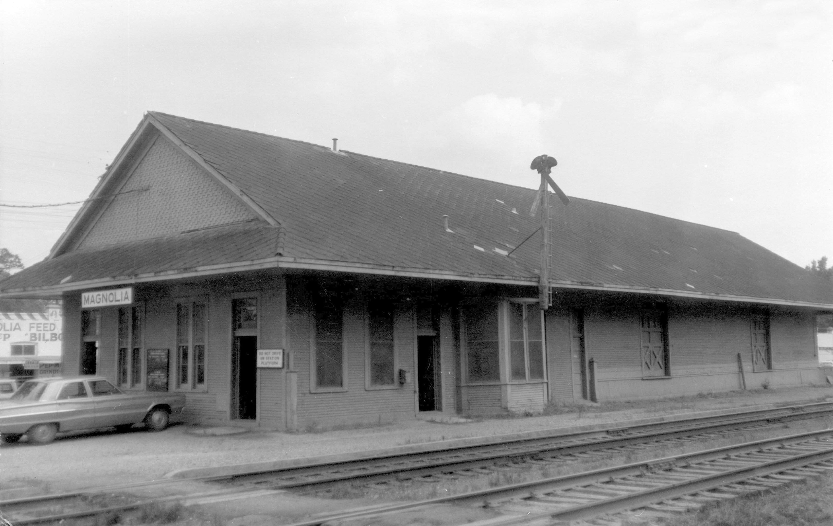 Collection: Railroad Depot Postcard Collection Call number: PI/1987.0009 System ID: 77389 Illinois Central Depot, Magnolia, Miss. Please see our profile page for information on ordering. Scanned as tiff in 2008/11/12 by MDAH. Credit: Courtesy of the Mississippi Department of Archives and History